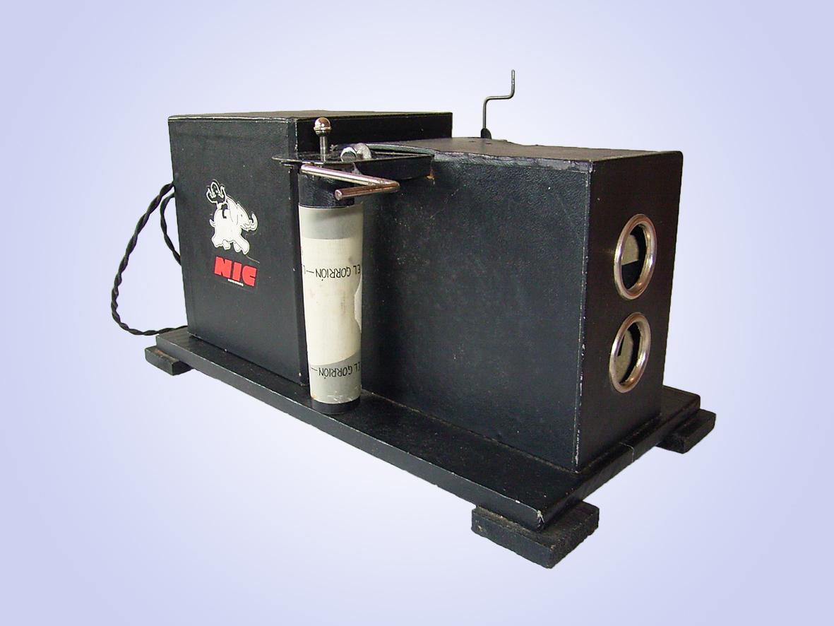 Cine NIC - first Version